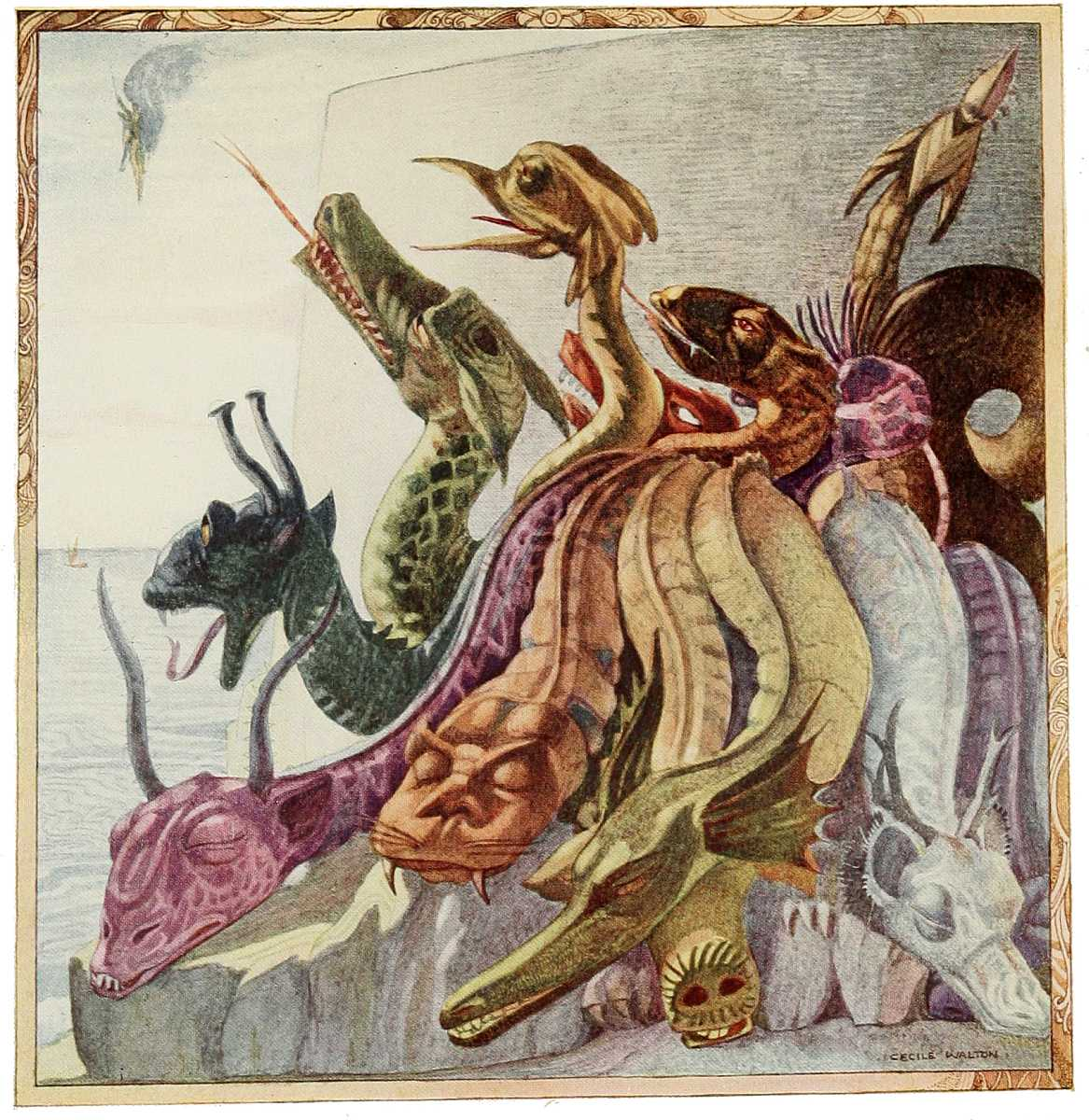 Illustration from Polish Fairy Tales by A. J. Glinski, illustrated by Cecile Walton, 1920.